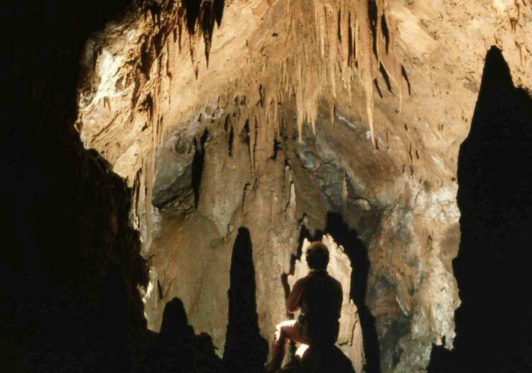 a cave of Akiyoshi Plateau, Japan